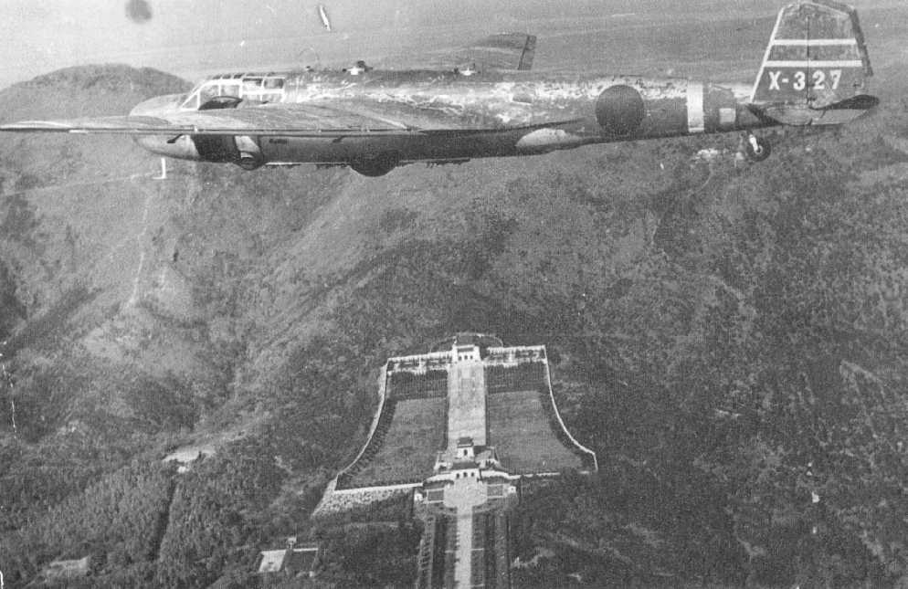 The Imperial Japanese Navy's G3M from Kisarazu Air Group over Sun Yat-sen Mausoleum, Nanking, 1938